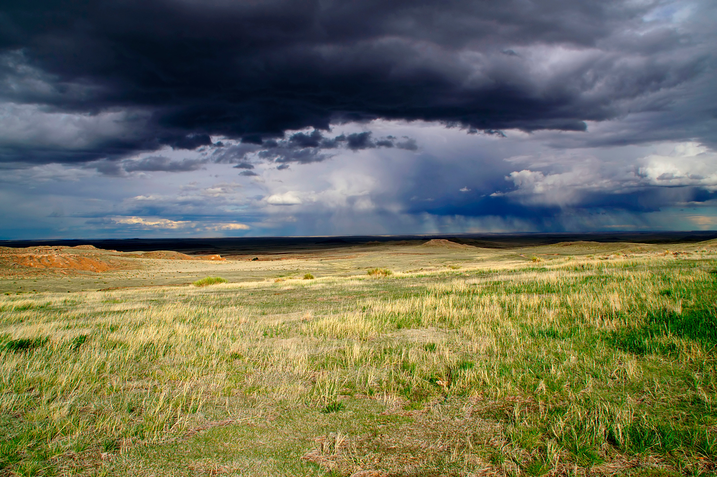 Dark storm clouds are rolling in at the Pawnee Buttes National Grasslands. Deep shadows and more storms can be seen in the distance. These unique rock formations and grasslands are situated on the northern Colorado prairie just south of the Wyoming state line.